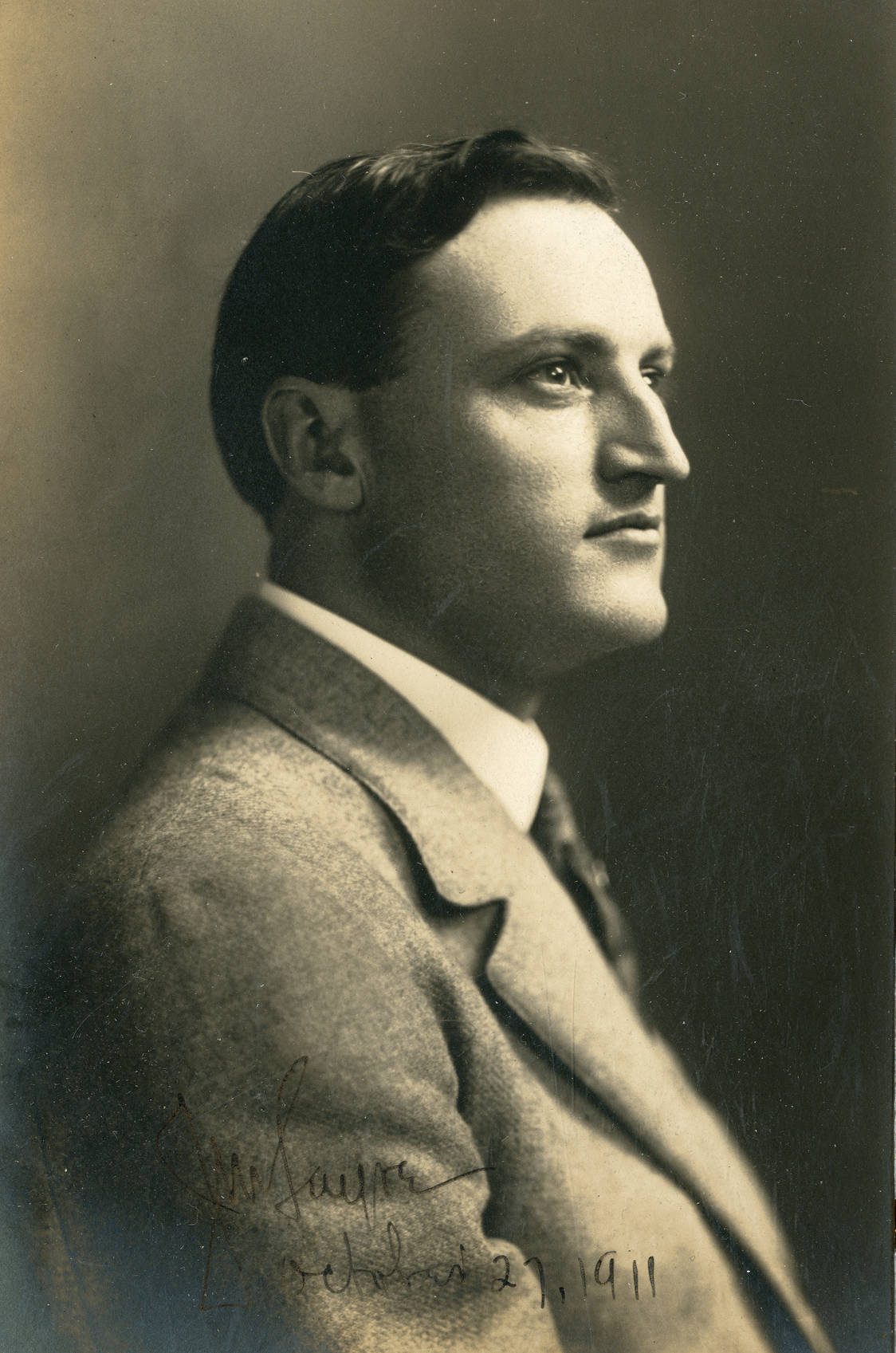 James Willis Sayre, Seattle drama critic Subjects: miscellaneous